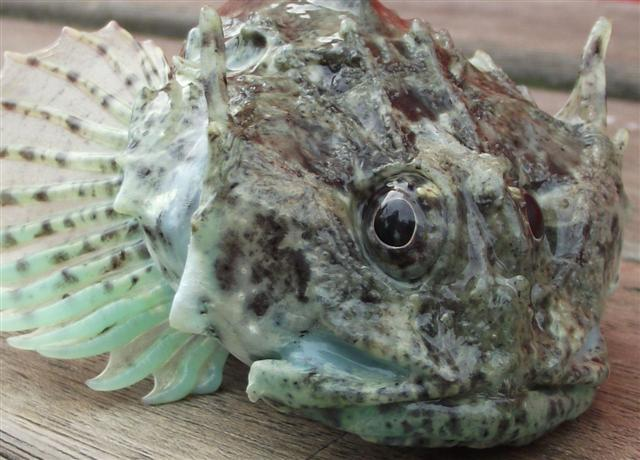 Taurulus bubalis photographed in Scheveningen pier, the Netherlands.